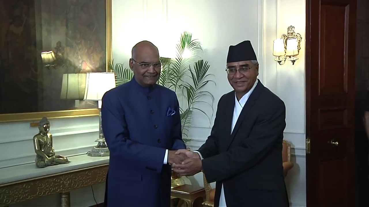 Prime Minister of Nepal calls on the President of India.